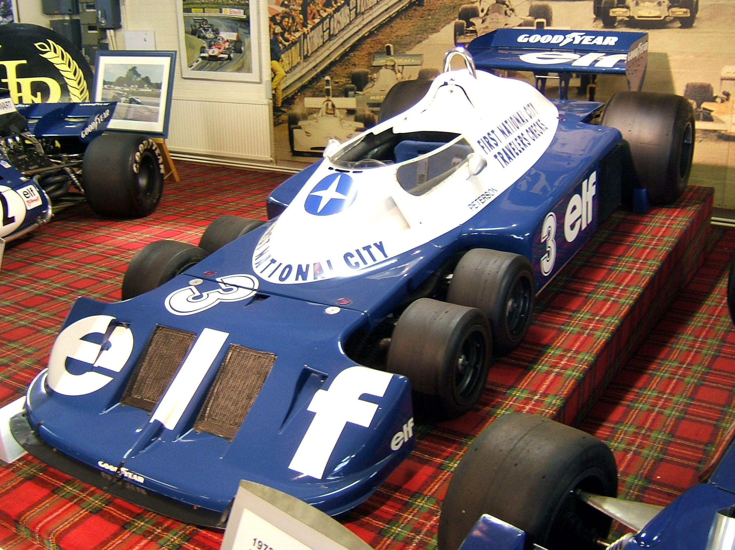 A 1977 spec. Tyrrell P34 Formula Once car, in the Donington Grand Prix Collection museum, Leics., UK